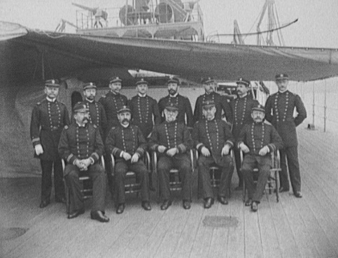 U.S.S. Miantonomoh, Capt. Montgomery Sicard and officers